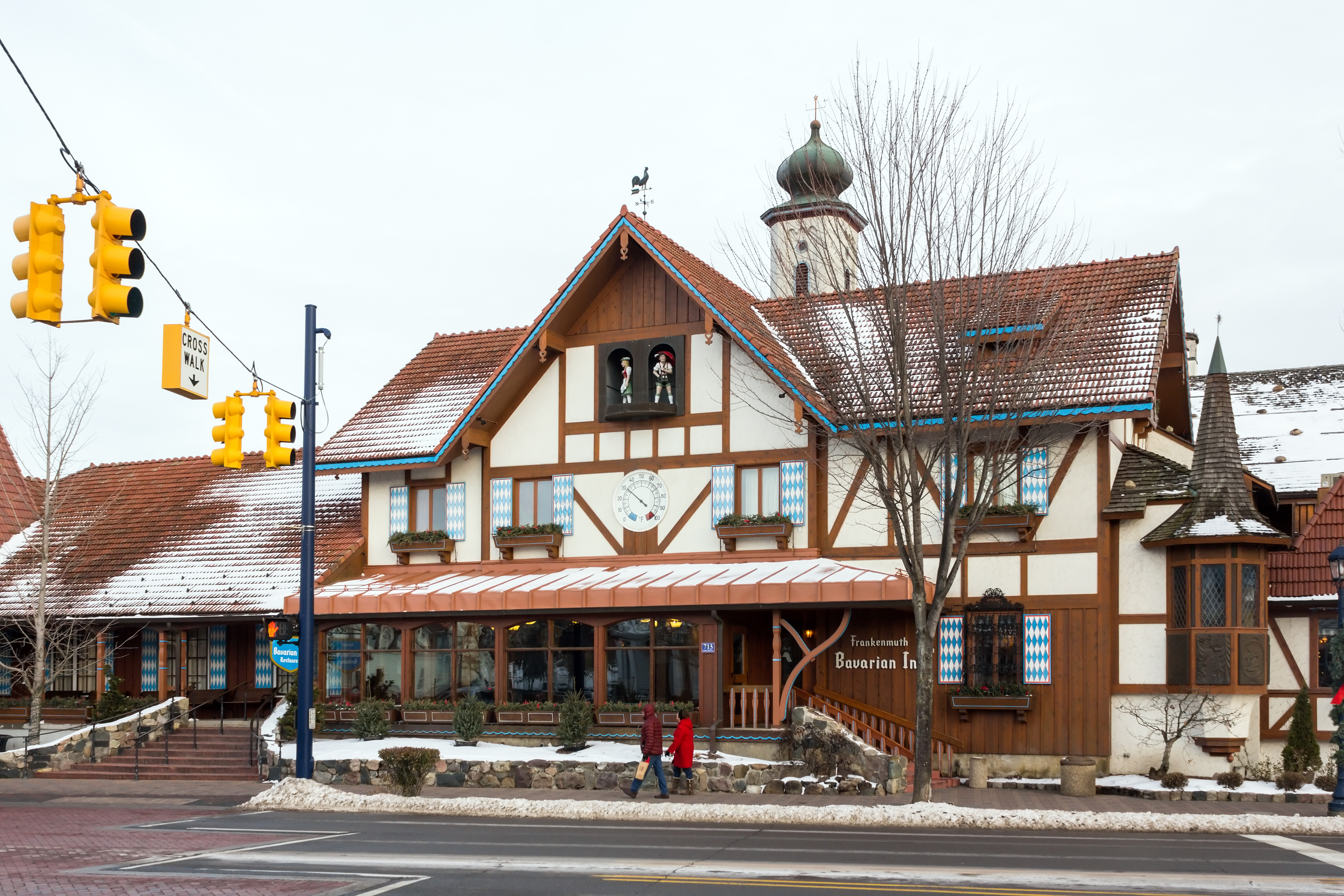 Bavarian Inn Restaurant, Frankenmuth, Michigan, 2015-01-11